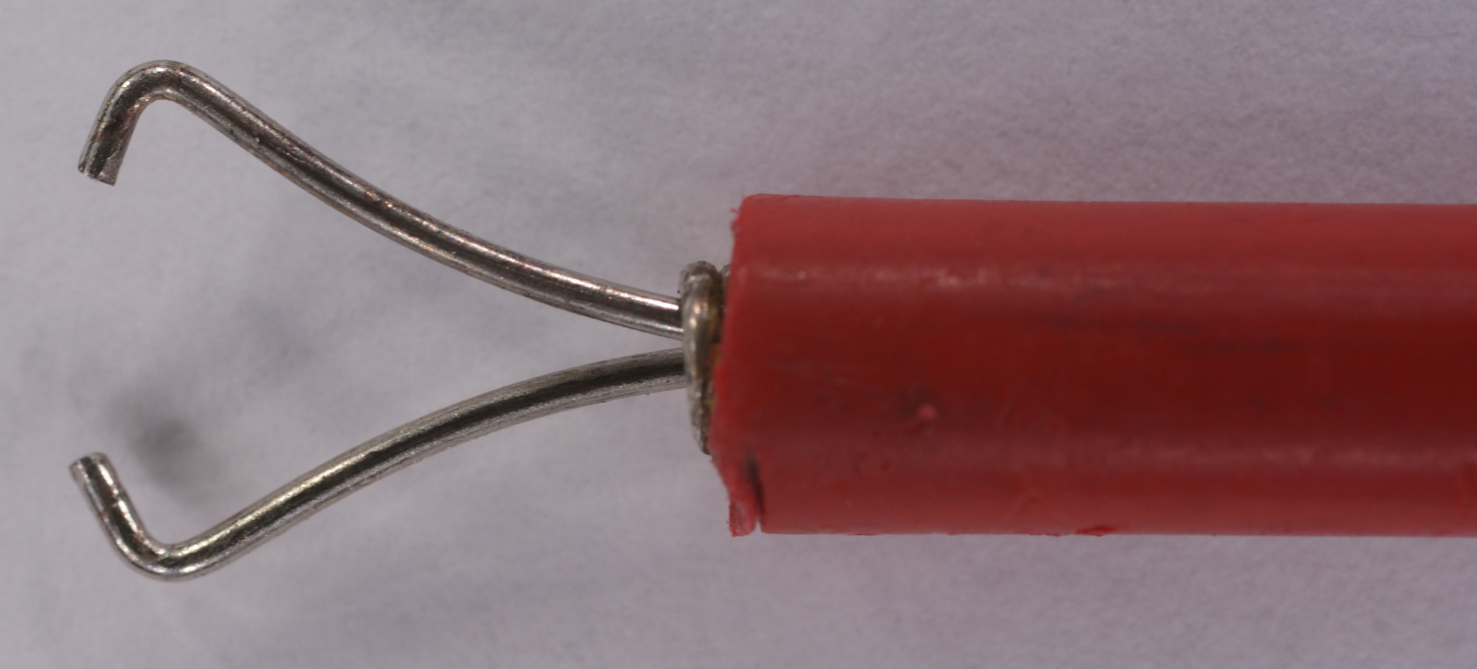 Test Clip: detail of the spring wire grabber.